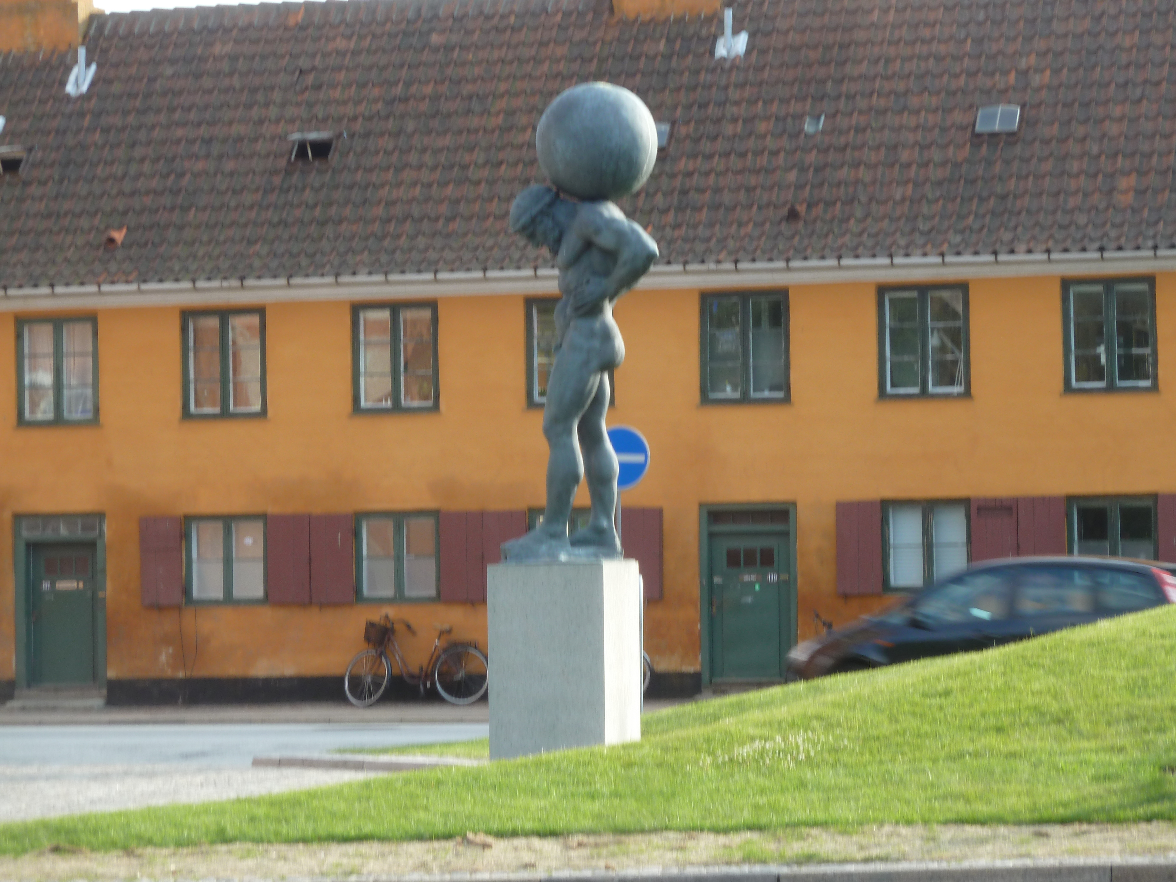 The Atlas statue on the corner of Grønningen and Store Kongensgade with Nyboder in the background